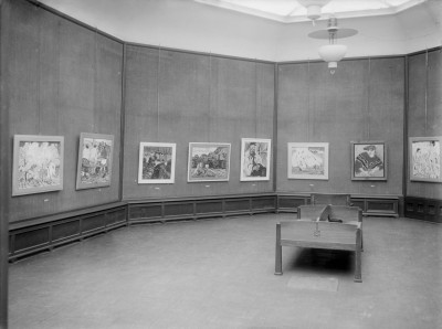 Exhibition of Brücke artists in the Kunstsalon Emil Richter, Prager Strasse, Dresden, June 1909.